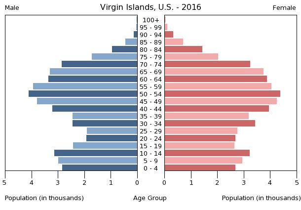 The population pyramid of the United States Virgin Islands illustrates the age and sex structure of population and may provide insights about political and social stability, as well as economic development. The population is distributed along the horizontal axis, with males shown on the left and females on the right. The male and female populations are broken down into 5-year age groups represented as horizontal bars along the vertical axis, with the youngest age groups at the bottom and the oldest at the top. The shape of the population pyramid gradually evolves over time based on fertility, mortality, and international migration trends.